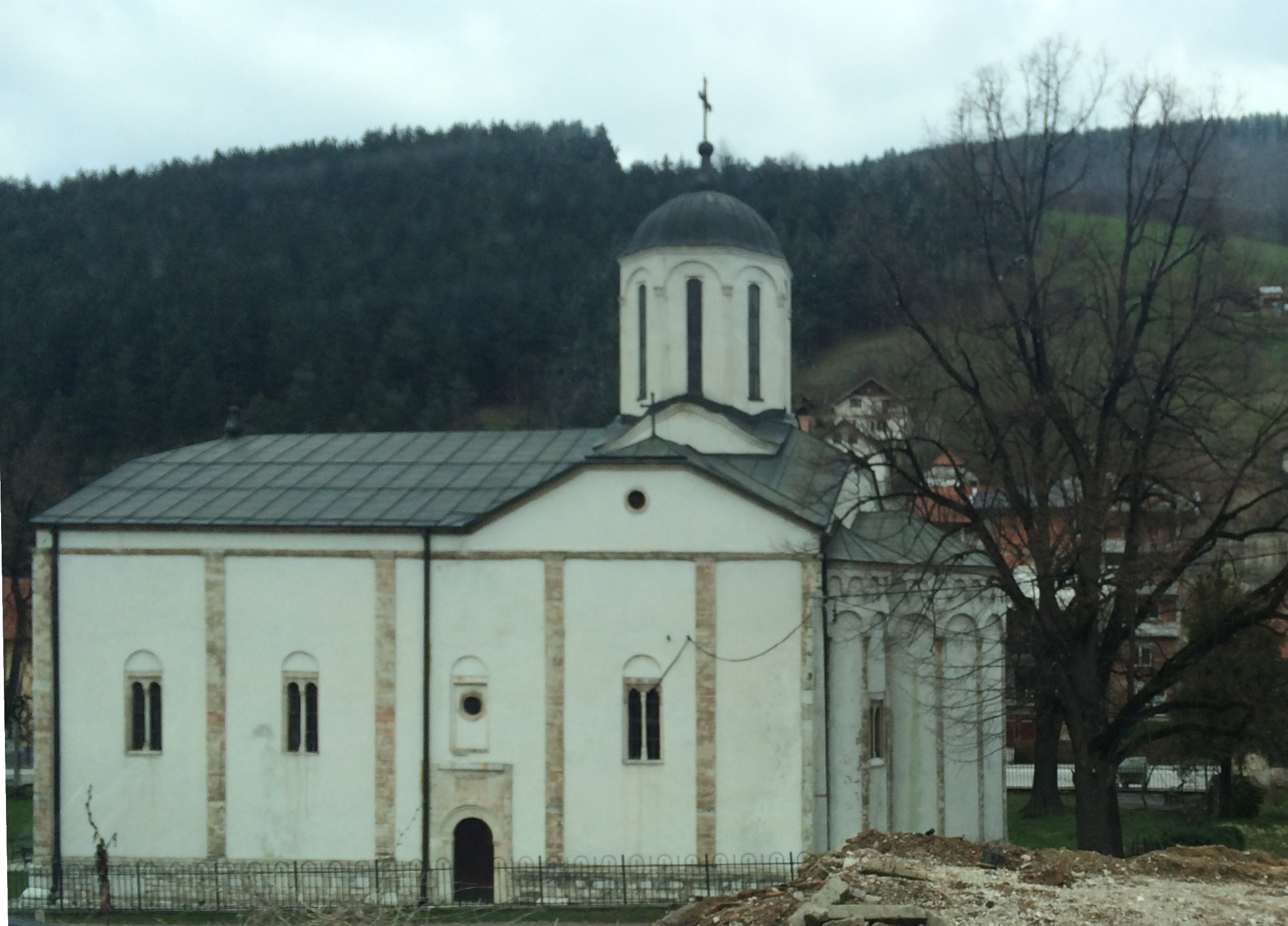 The church Hram Svete Trojice (Храм свете Тројице), in the city of Nova Varos, Sandzak - southwest Serbia.